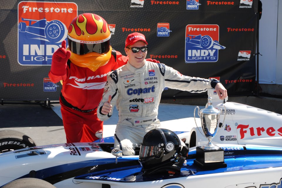 Josef Newgarden after clinching the Firestone Indy Lights Series Championship at the Kentucky race in 2011.